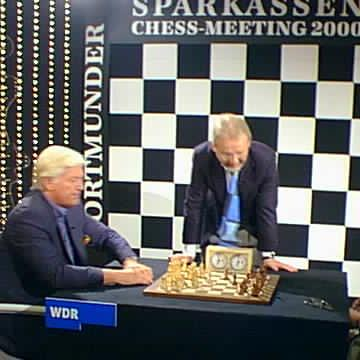 Claus Spahn (producer by TV WDR) and Helmut Pfleger, Dortmunder Schachtage 2000, Photographer Gerhard Hund.